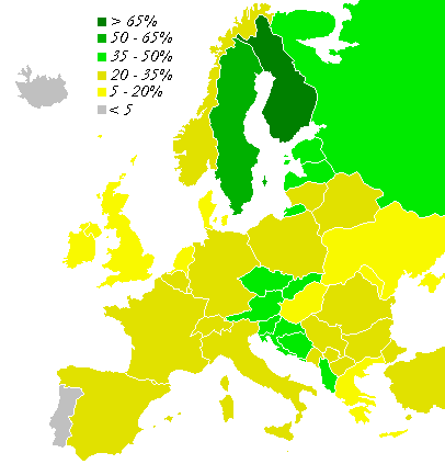 forests in Europe